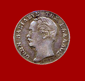 King Otto 1/2 Drachma 1855